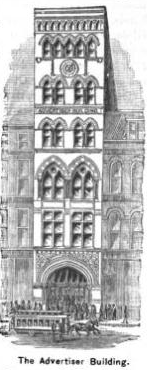 Boston Advertiser Building from Boston Illustrated: Containing Full Descriptions of the City and Its Immediate Suburbs, Its Public Buildings and Institutions, Business Edifices, Parks and Avenues, Statues, Harbor and Islands, Etc., Etc. With Numerous Historical Allusions, by Edward Stanwood, Edwin Monroe Bacon. Published by Houghton, Mifflin and Co., 1886